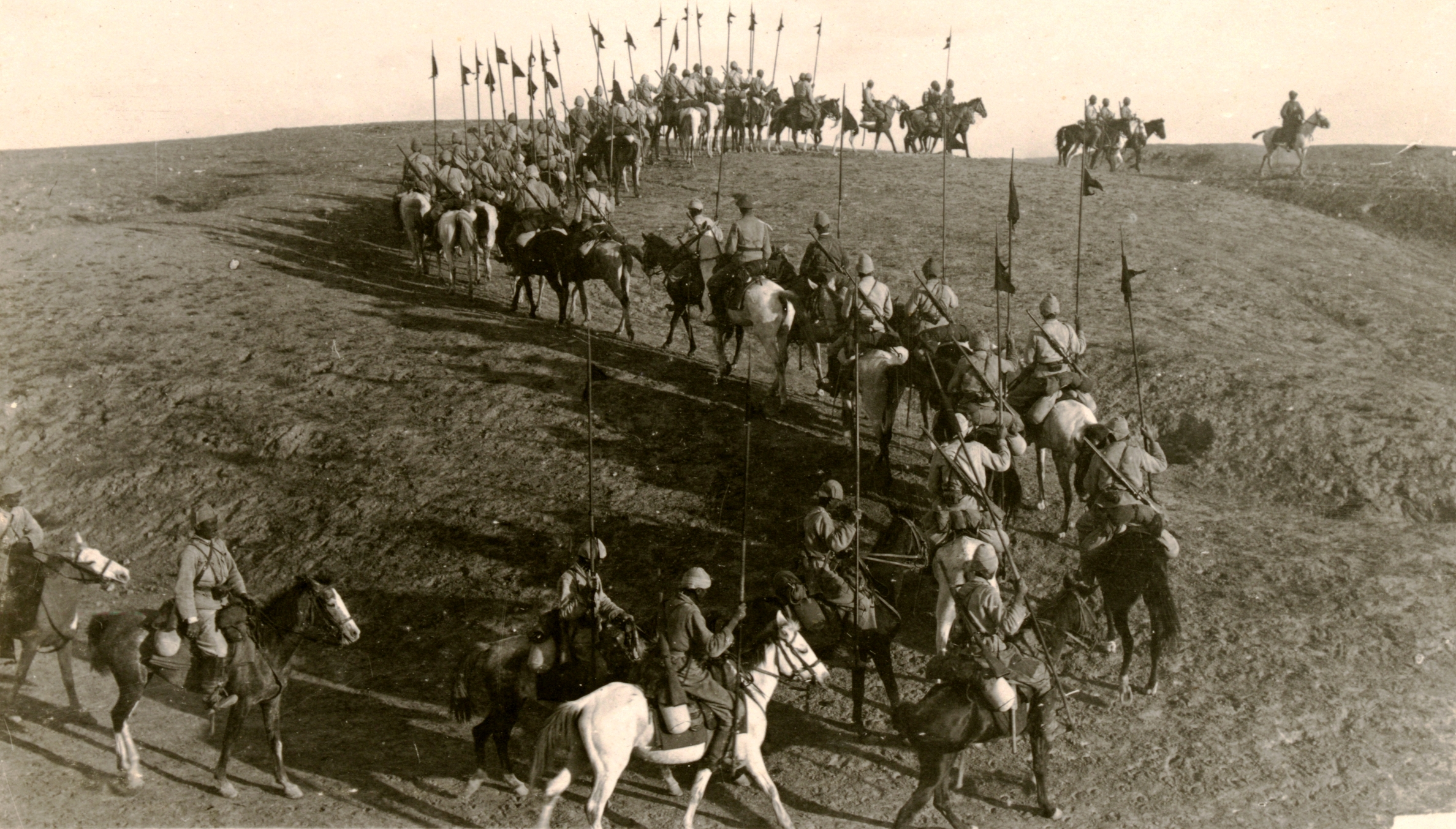 Turkish Lancers west of Beersheba in Ottoman Palestine, 1917.